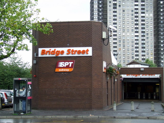 Bridge Street subway station Original description: Bridge Street subway station Just along the road from the former main line station NS5864 : Former Bridge Street station.